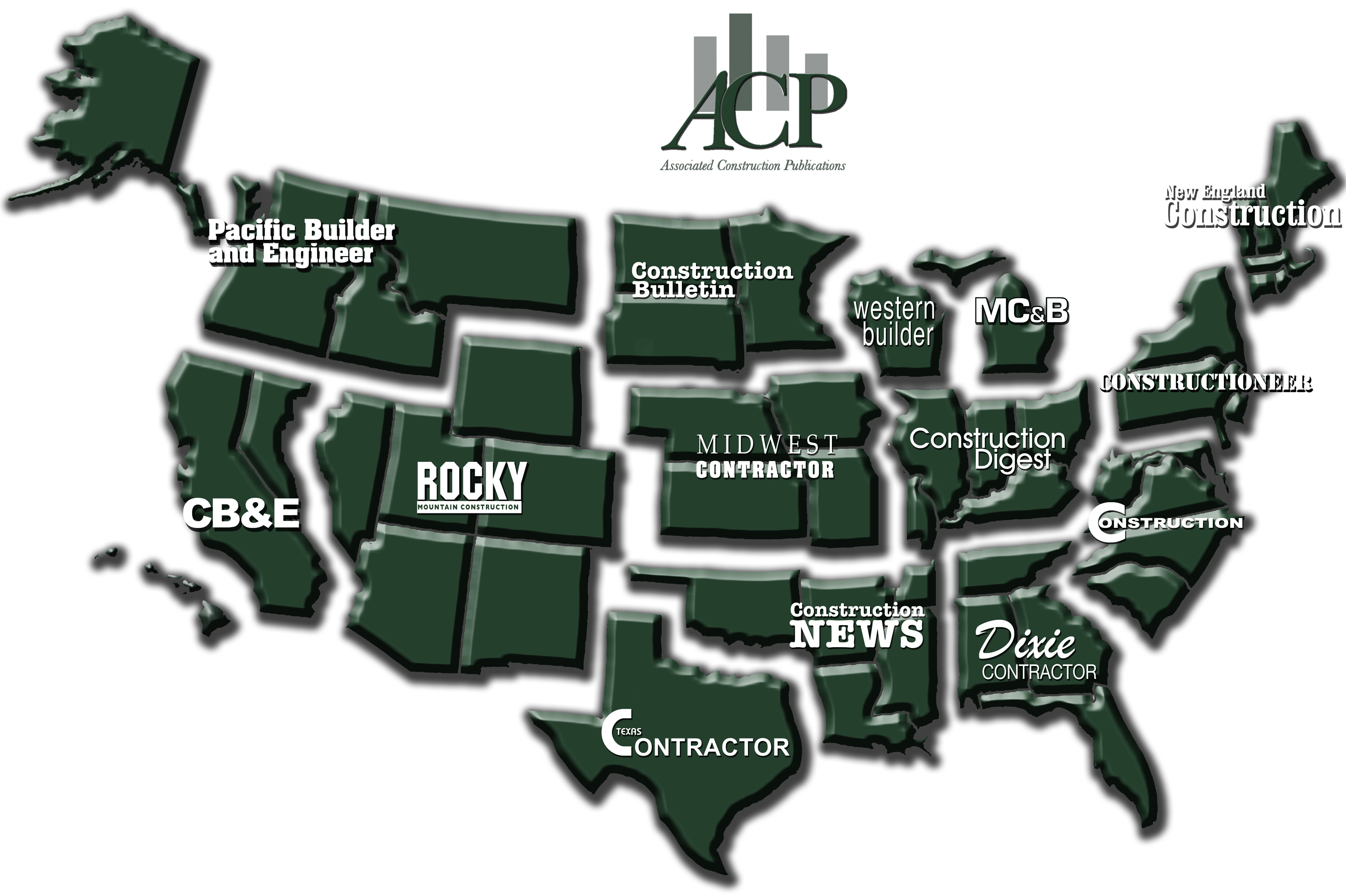 Territory covered by the 13 construction trade publications owned by Associated Construction Publications (ACP) president and owner John White. Also includes territory covered by Construction Bulletin which is under the ownership of Reed Business Information